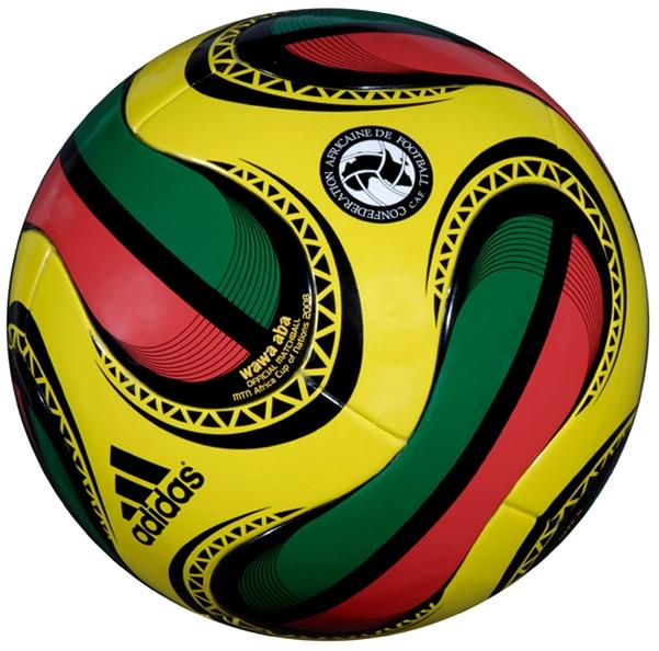 Adidas African Cup of Nations 2008 match ball Wawa Aba